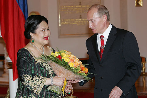 July 5, 2007 THE KREMLIN, MOSCOW. With Queen Sirikit of Thailand.